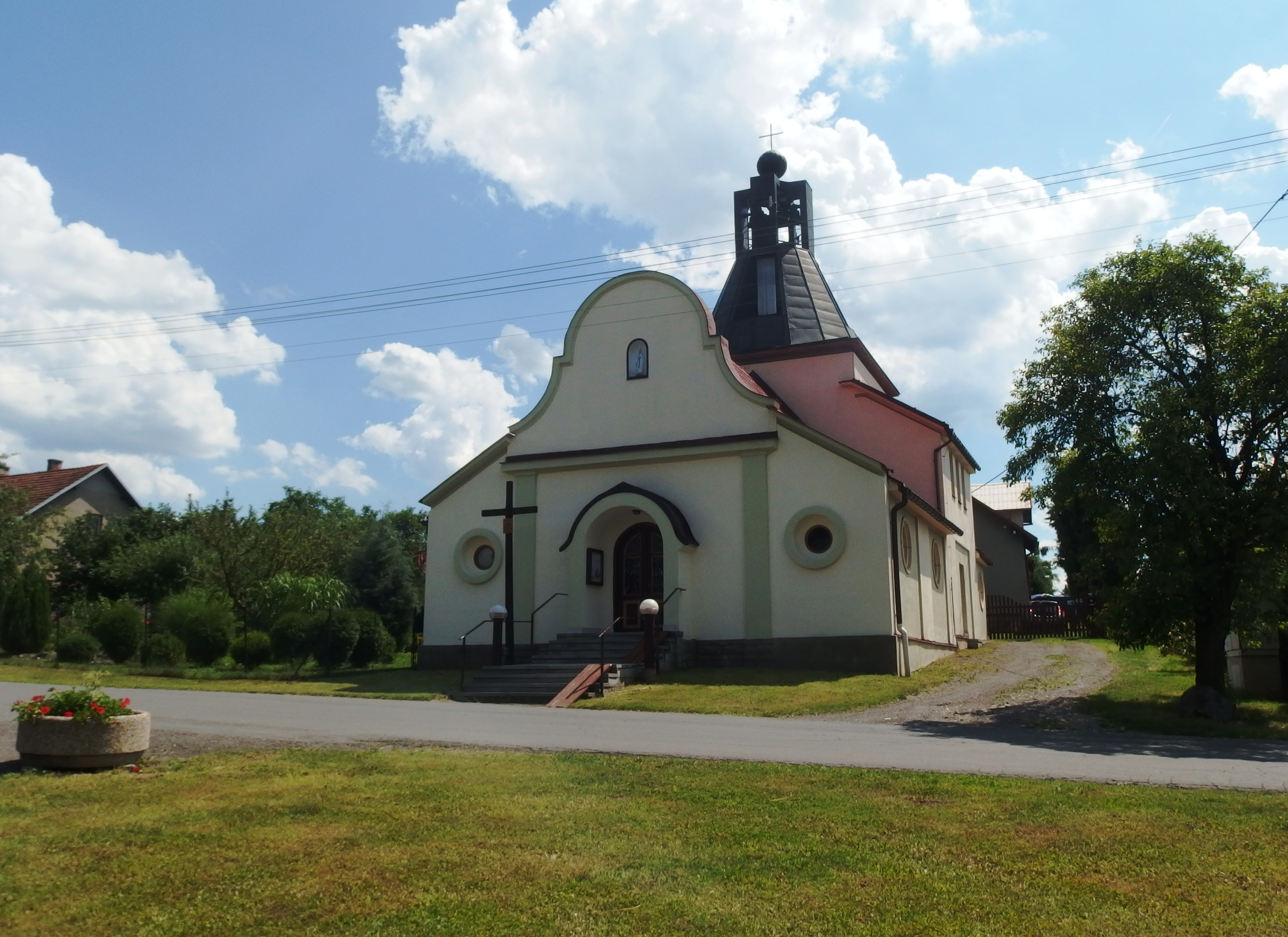 Příbor, Nový Jičín District, Czech Republic, part Hájov.